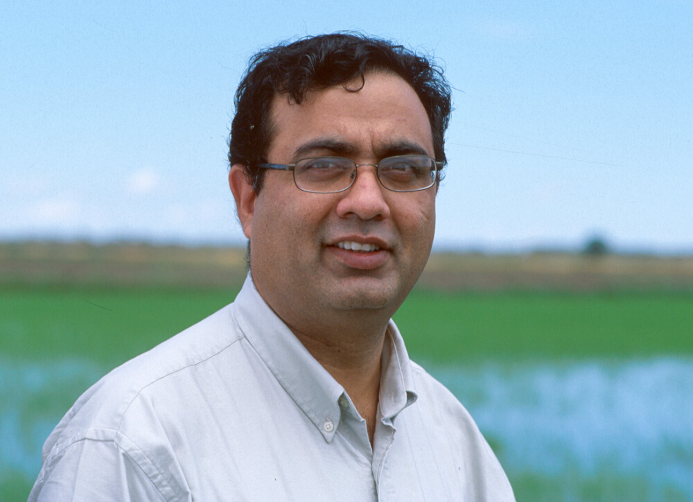 Photo of Professor Shahbaz Khan